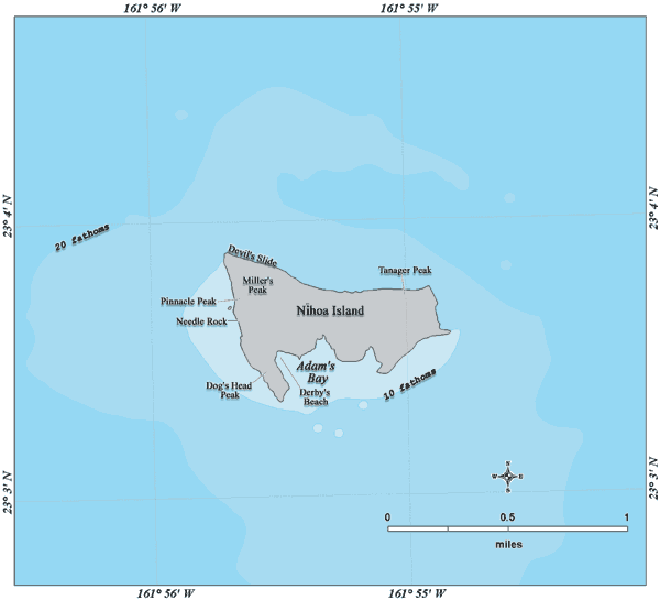 Bathymetric map of Nihoa Island, Northwestern Hawaiian Islands